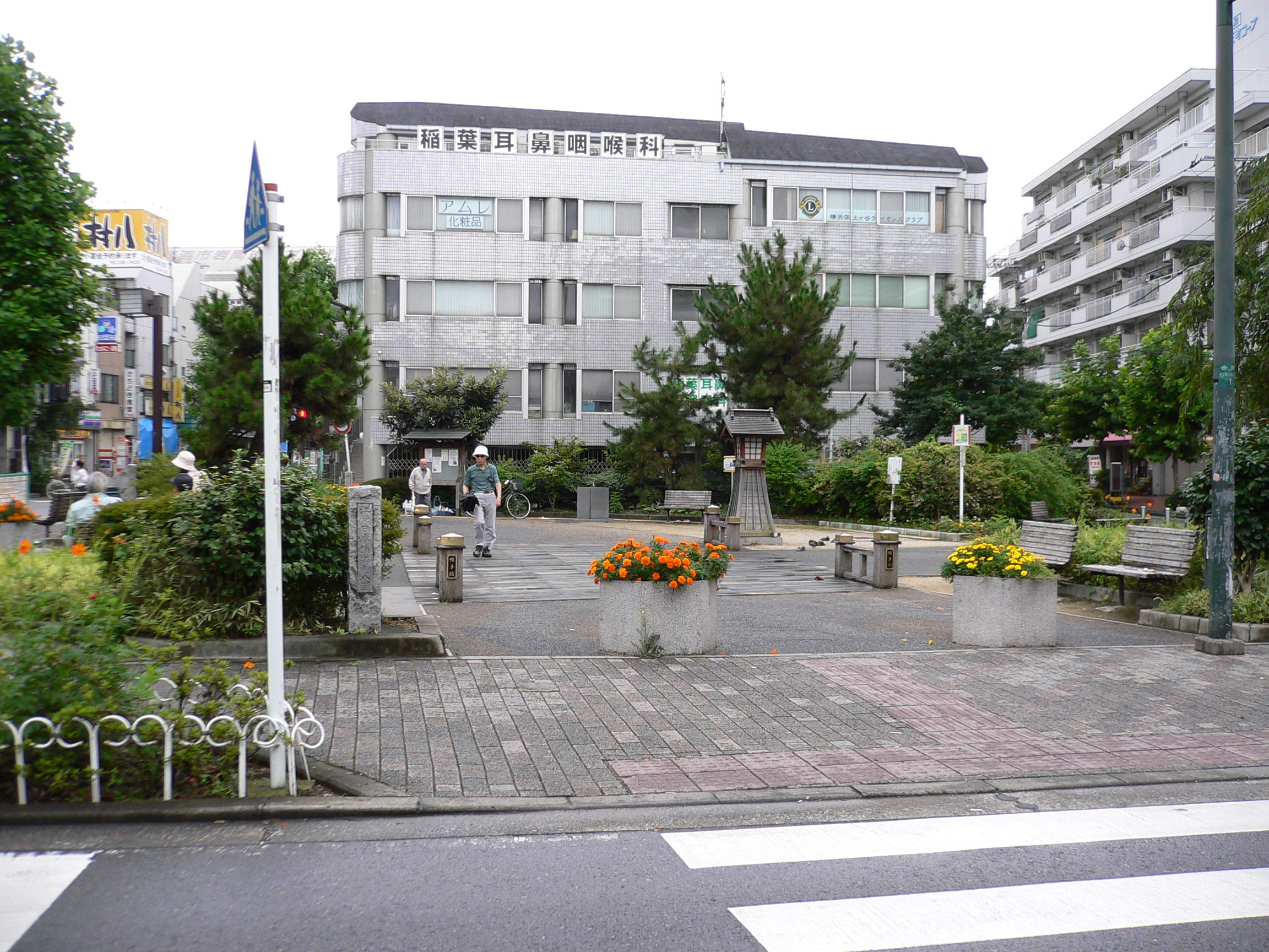 Hodogaya-ku,Japan.